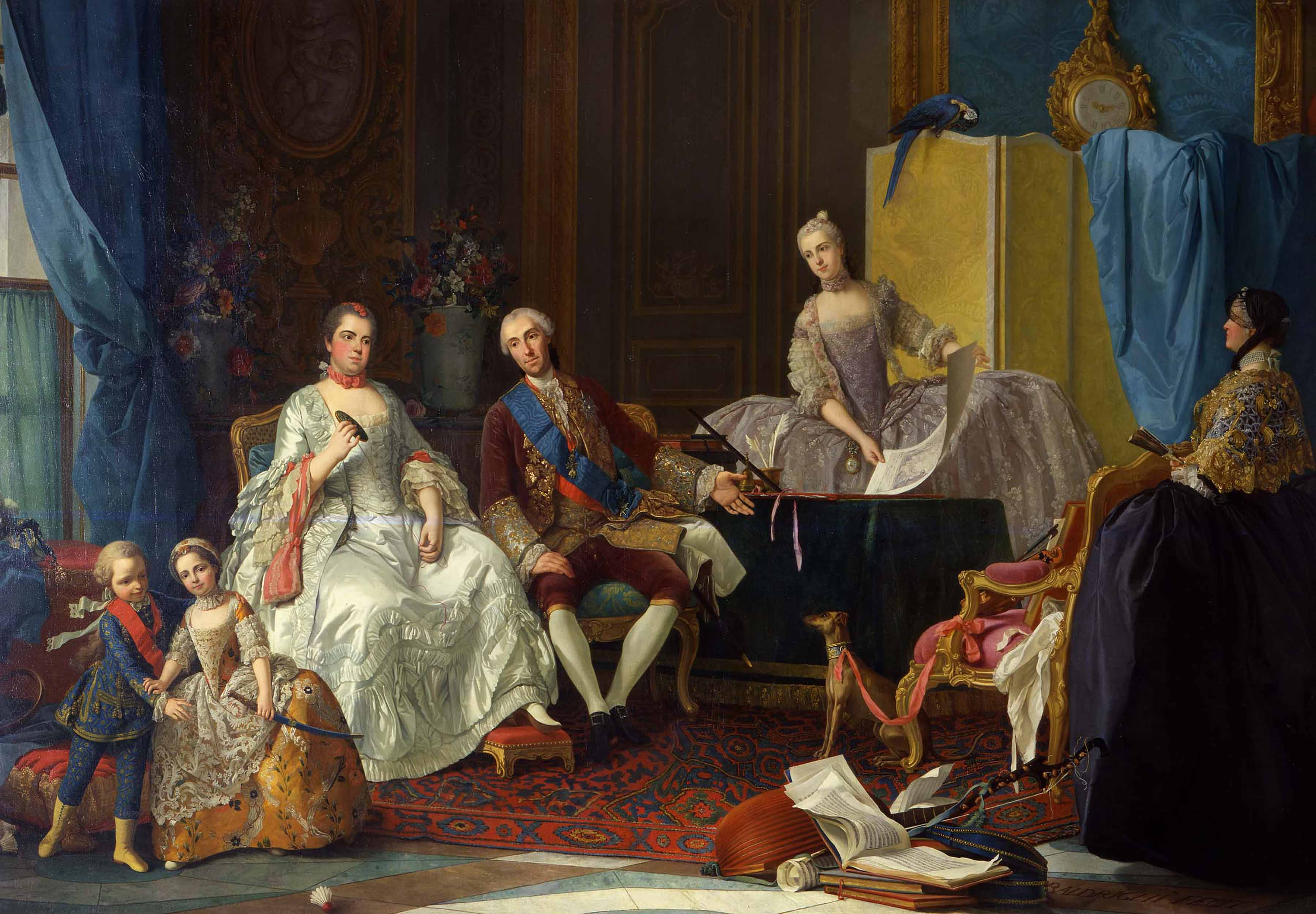 Felipe of Parma and his wife Louise Élisabeth of France with their younger children Ferdinand, the later Ferdinand I of Parma and Maria Luisa, (later Queen of Spain), Parma, Galleria Nazionale; The girl is keeping her brother's miniature sword away from him. Portrayed in profile on the right, the childrens' gouvernante, Marie Catherine de Bassecourt, Marchioness of Borghetto.